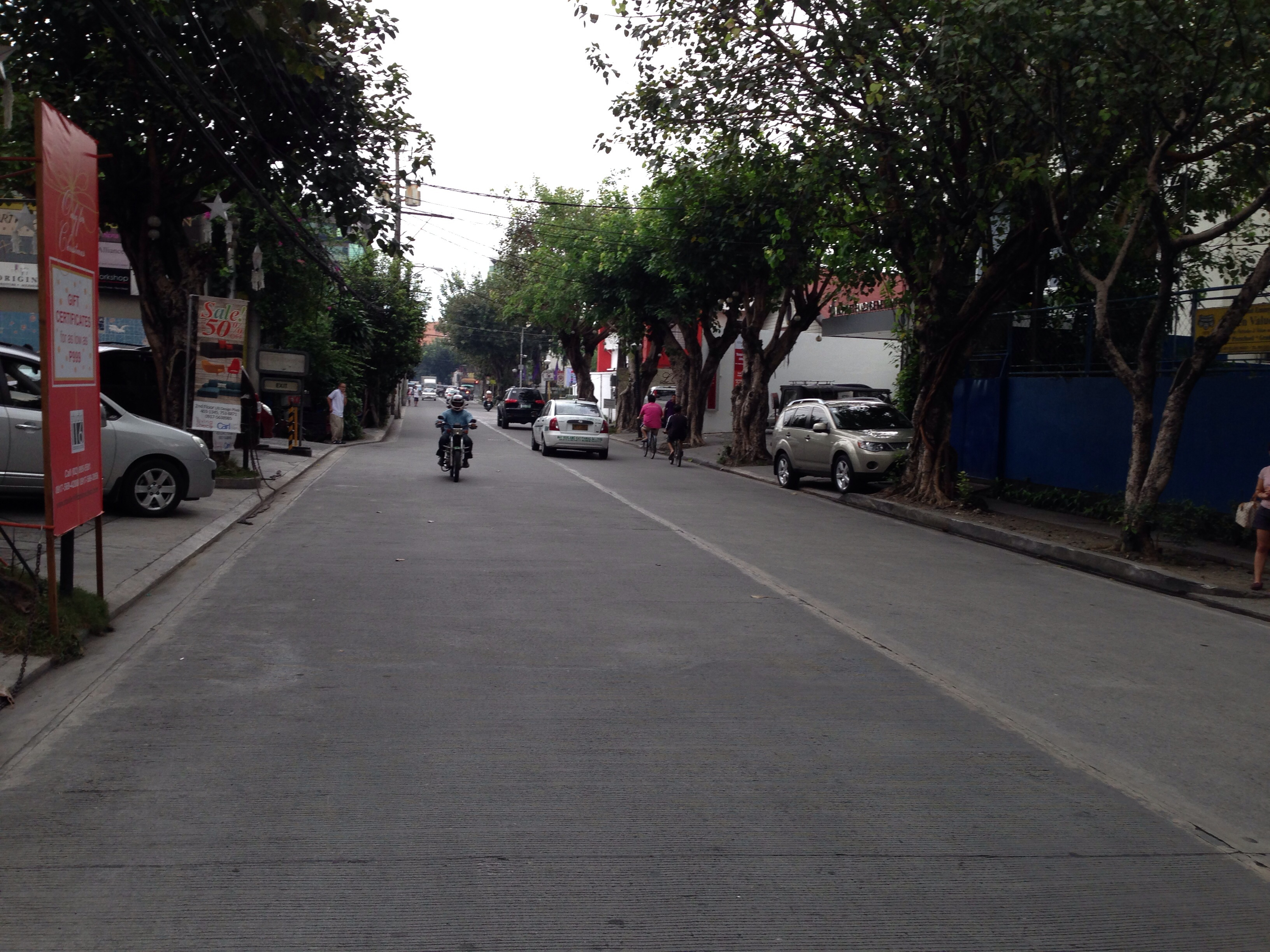 Nicanor Garcia Street (formerly Calle Reposo), Makati, Manila